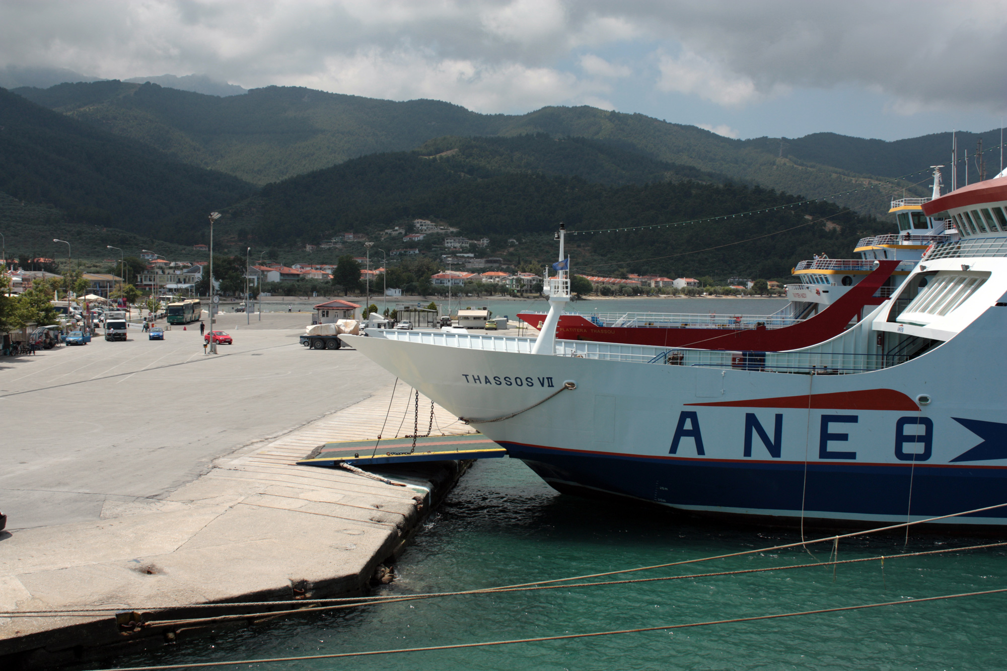 Limenas Ferry quay, Thassos, Greece